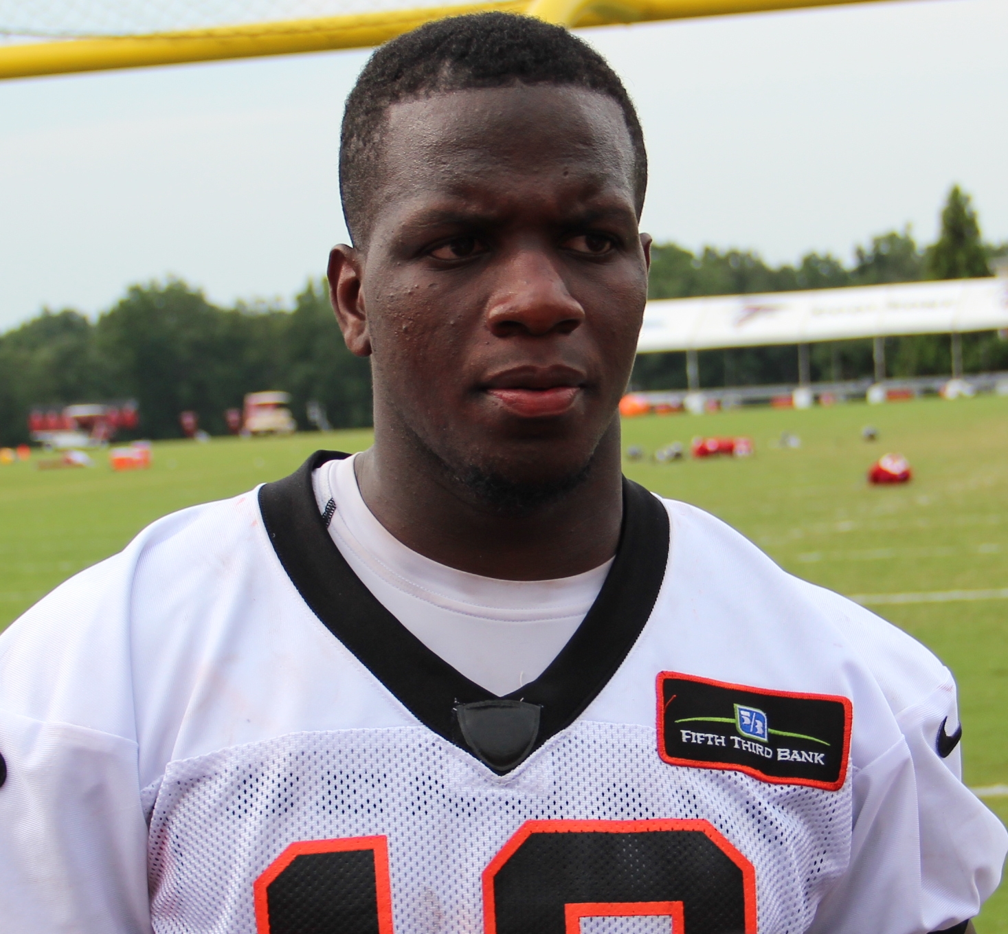 Mohamed Sanu in 2013